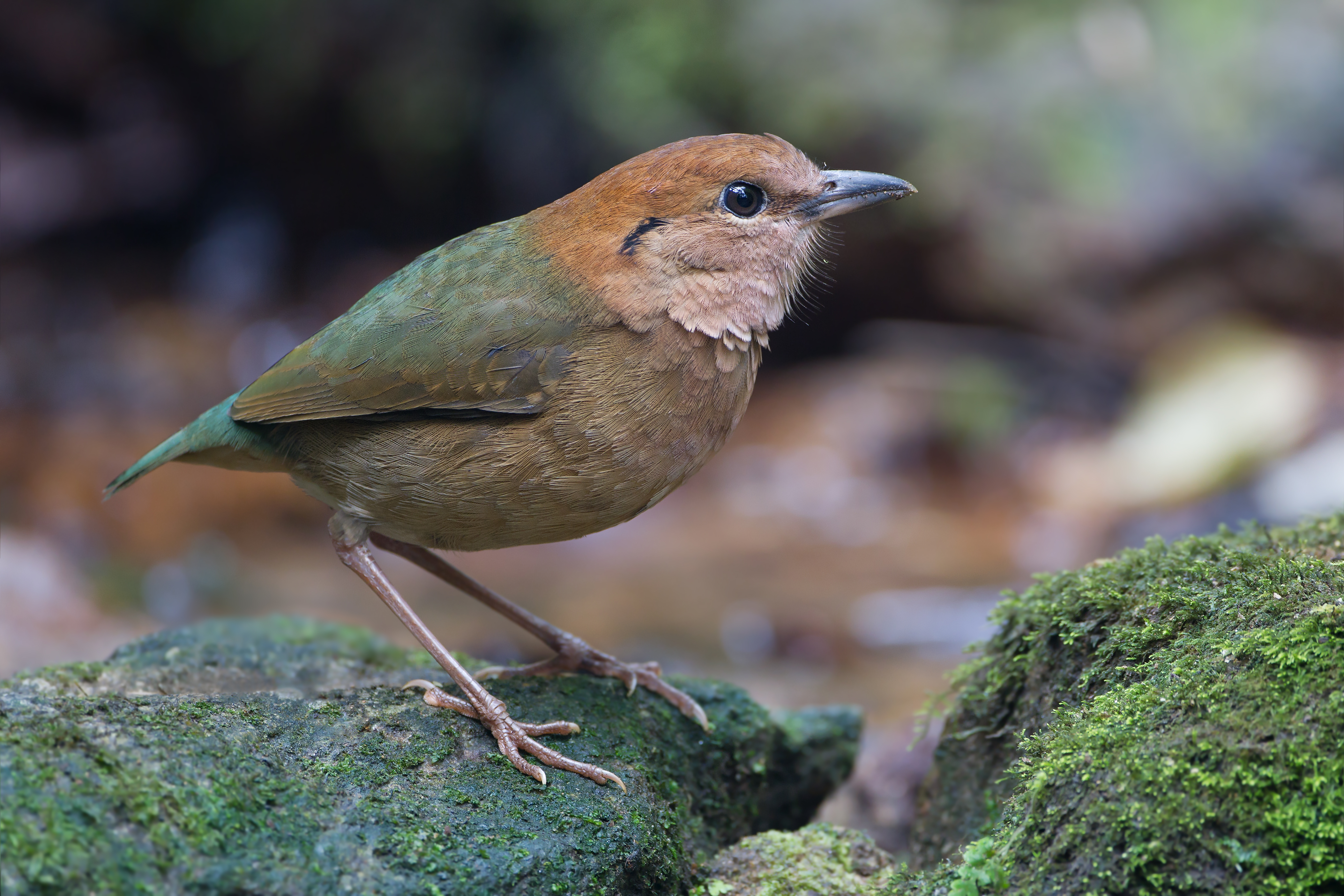 Rusty-naped Pitta (Pitta oatesi) - adult male, Mae Wong National Park, Nakhon Sawan, Thailand